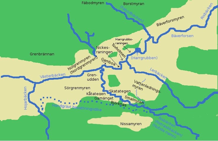 Map of Grena, North of Sweden. All names in map are from around 1900.